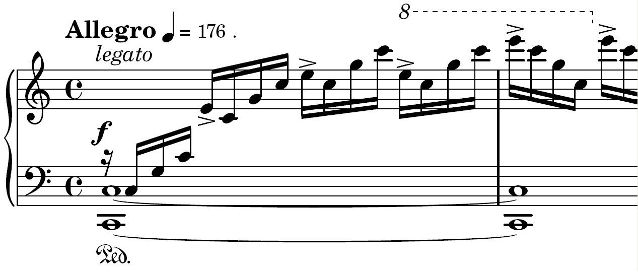 Opening from an Étude (Op.10 No.1) composed by Frédéric Chopin, made in lilypond version 2.12.0